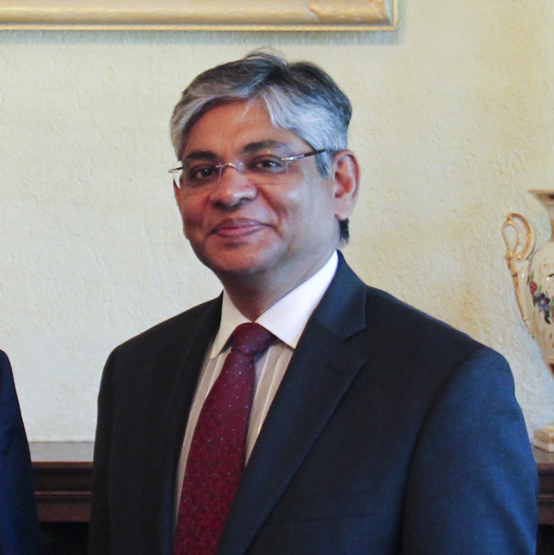 Governor Dayton Meets with Indian Ambassador Arun Kumar Singh.